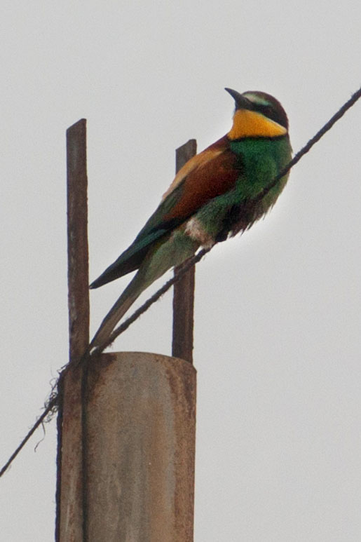 European Bee Eater, Tel Aviv's Northwestern Kurkar Range